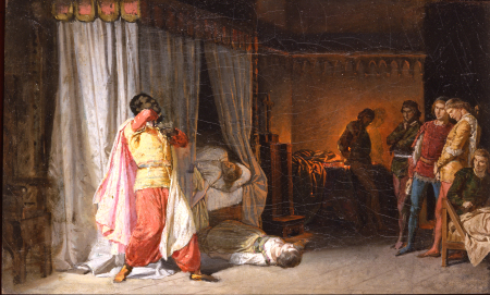 The Death of Othello (first version)